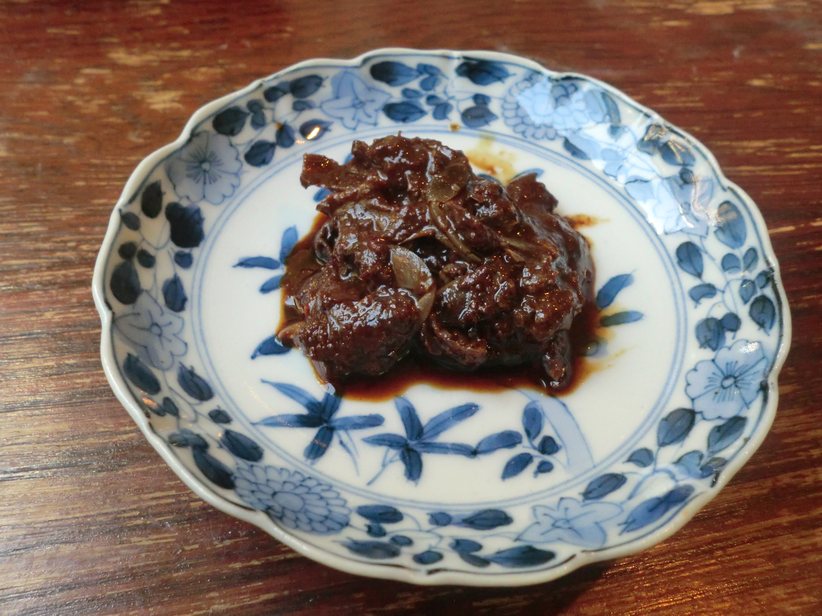 Ganduke, salt and pepper-preserved crab famous in Chikugo area, Fukuoka,Japan.